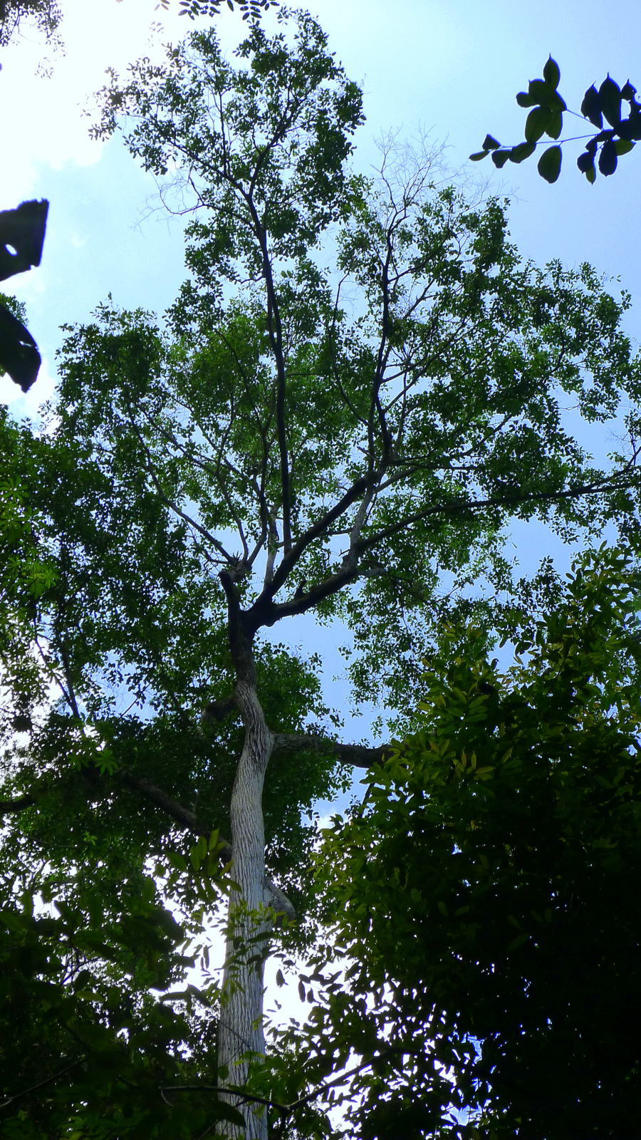 Lecythis marcgraaviana Miers